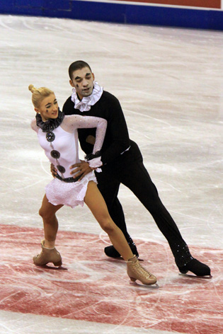 2009 Skate Canada International - Aliona Savchenko and Robin Szolkowy